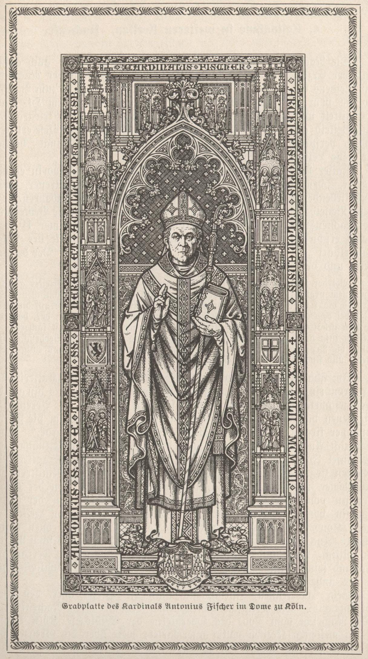 tombstone of cardinal Antonius Fischer, Cathedral Cologne